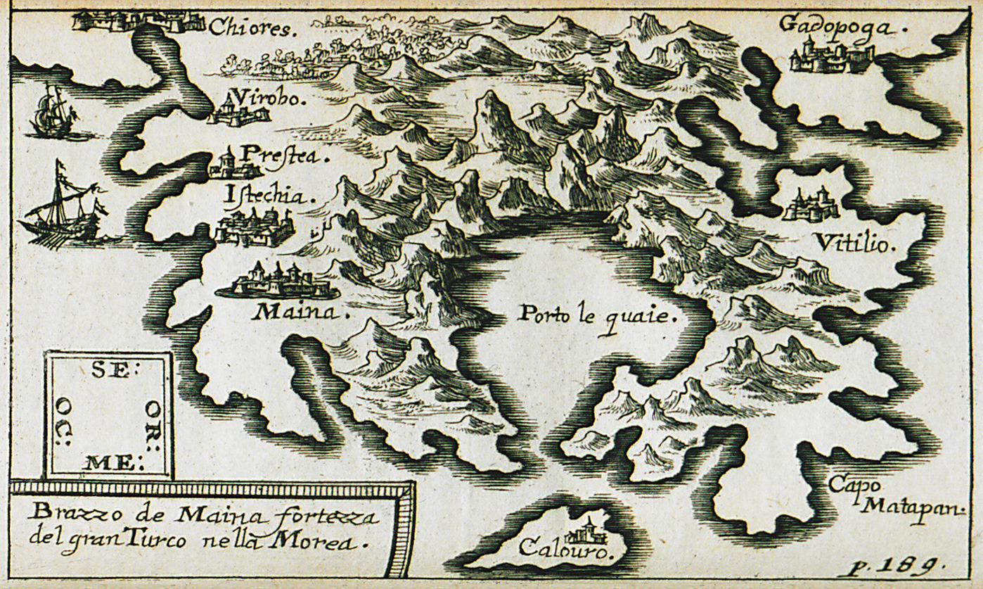 Mani peninsula (Oitylo) in the Peloponnese, Greece. Jacob von Sandrart. Kurtze und vermehrte Beschreibung von dem Ursprung, Aufnehmen, Gebiete und Regierung der weltberühmten Republik Venedig, Nürnberg, Kupfferstechern und Kunst-Händlern, 1687.